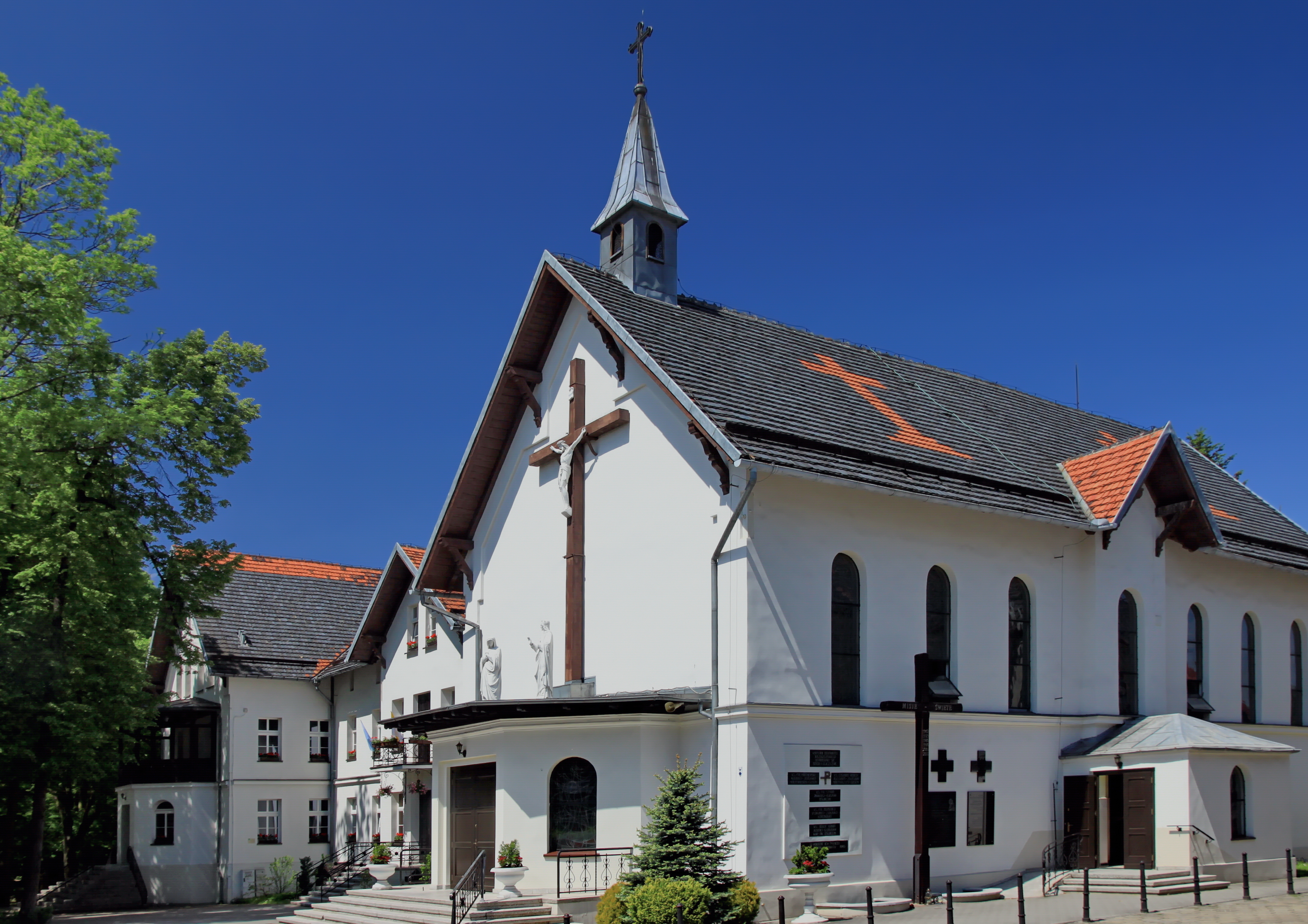 "Marienheim" (Department of the Blessed Virgin Mary): medical institution for catholic children run by Sisters of Mercy of St. Borromeo. Since June 10, 1951, the parish church of Sacred Heart of Jesus, build in 1891